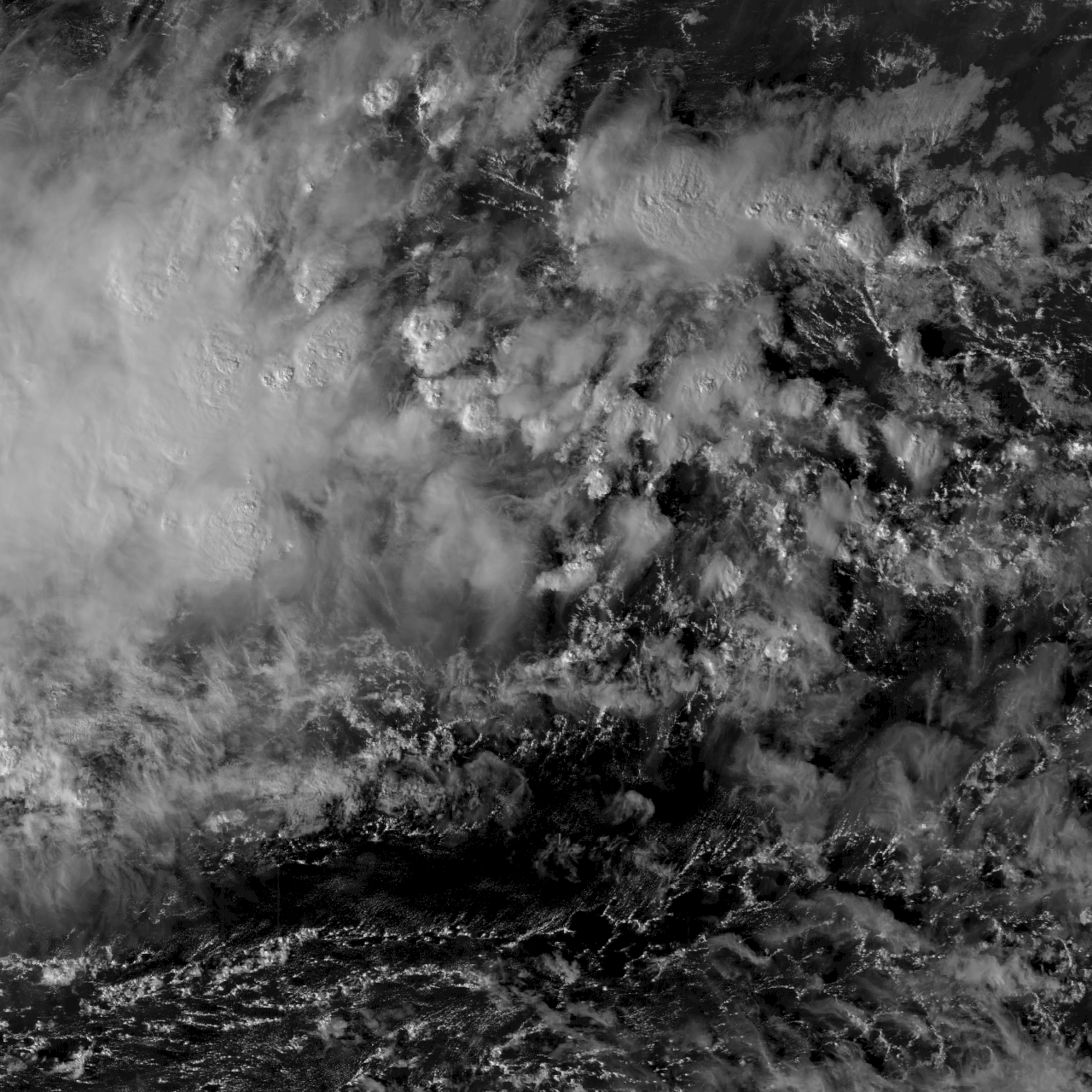 Geostationary imagery of Tropical Depression Amang (2019)